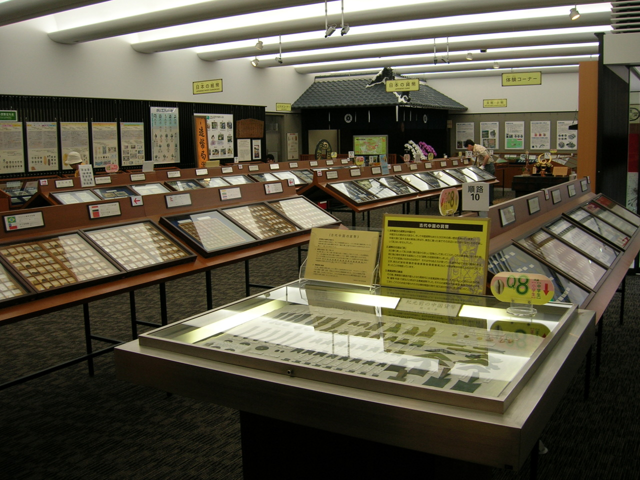 Bank of Tokyo-Mitsubishi UFJ Money Museum. Loc: Higashi-ku, Nagoya city, Aichi Prefecture, Japan. 三菱東京UFJ銀行貨幣資料館・館内 撮影場所 愛知県名古屋市東区赤塚